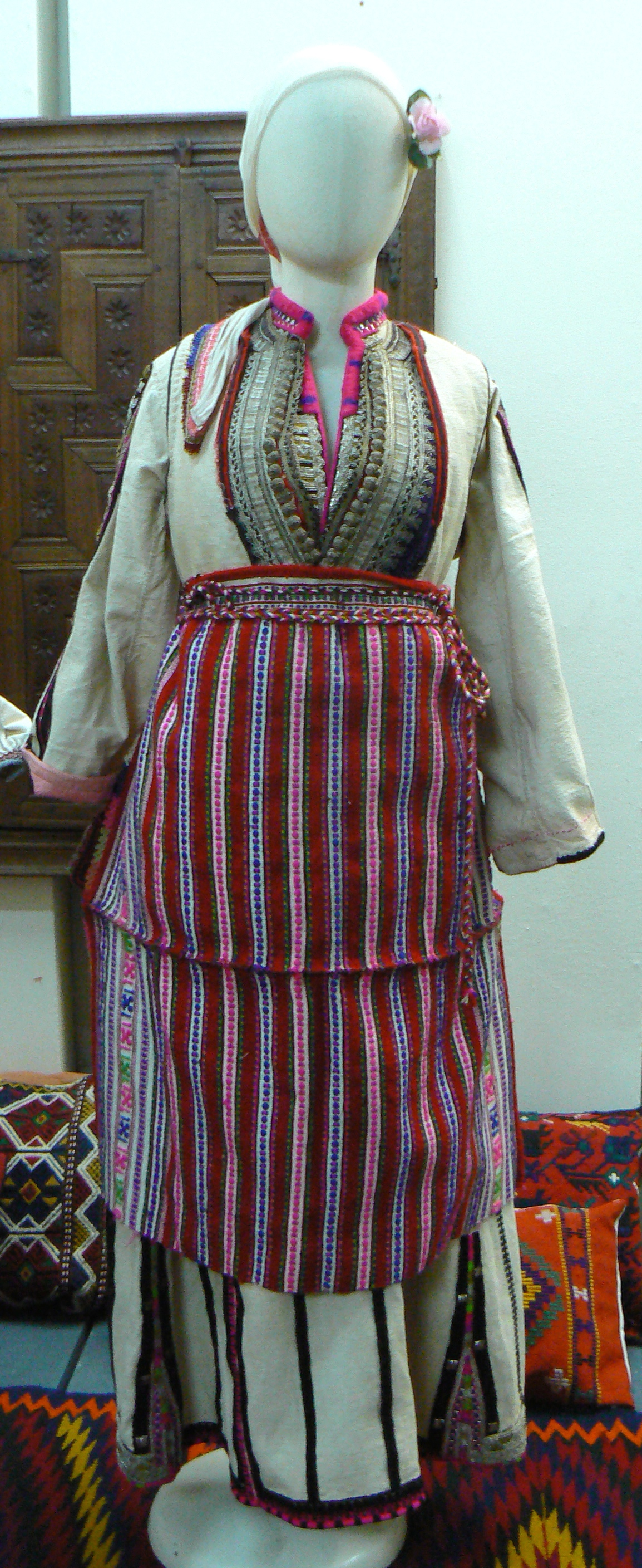 Female costume from Tetovo, end of 19th century. Exhibit of the National ethnographic museum of Bulgaria